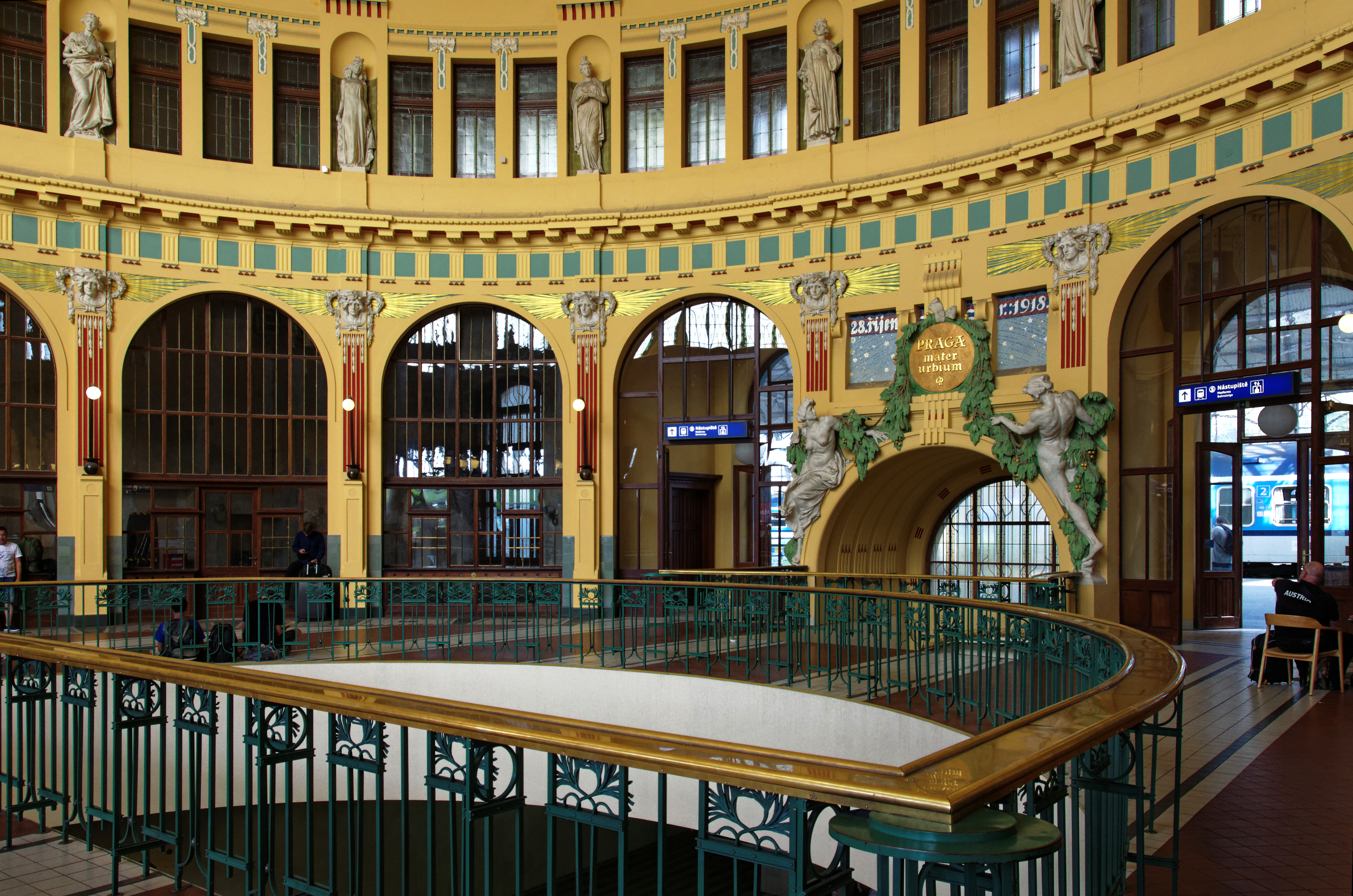 Prague. Old station building, main hall, look from the street side in direction to the platforms